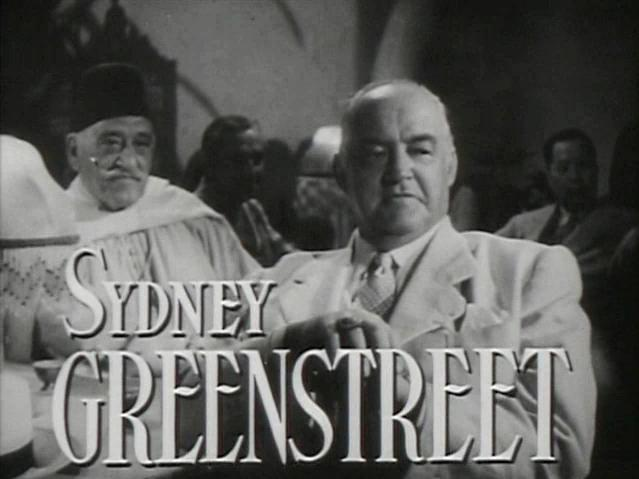 Screenshot of Sydney Greenstreet in credits section of trailer.